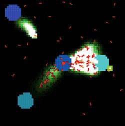 Screenshot of NetLogo model "Ants"